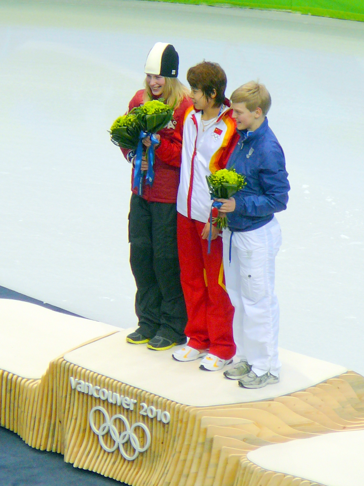 The medalists in the womens' 500 metres short track speed skating event at the 2010 Winter Olympics. From left: Marianne St-Gelais of Canada (silver), Wang Meng of China (gold) and Arianna Fontana of Italy (bronze)